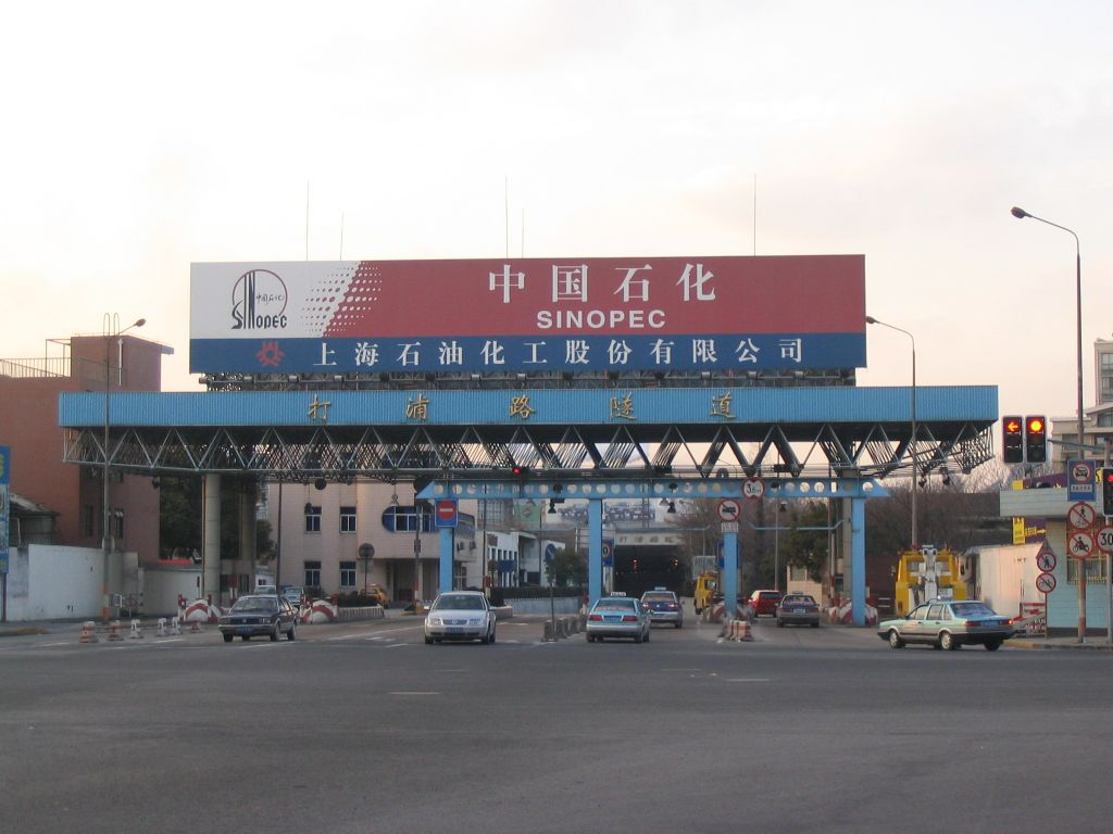 打浦路隧道-浦東入口 Da Pu Road Tunnel, Pudong Entrance